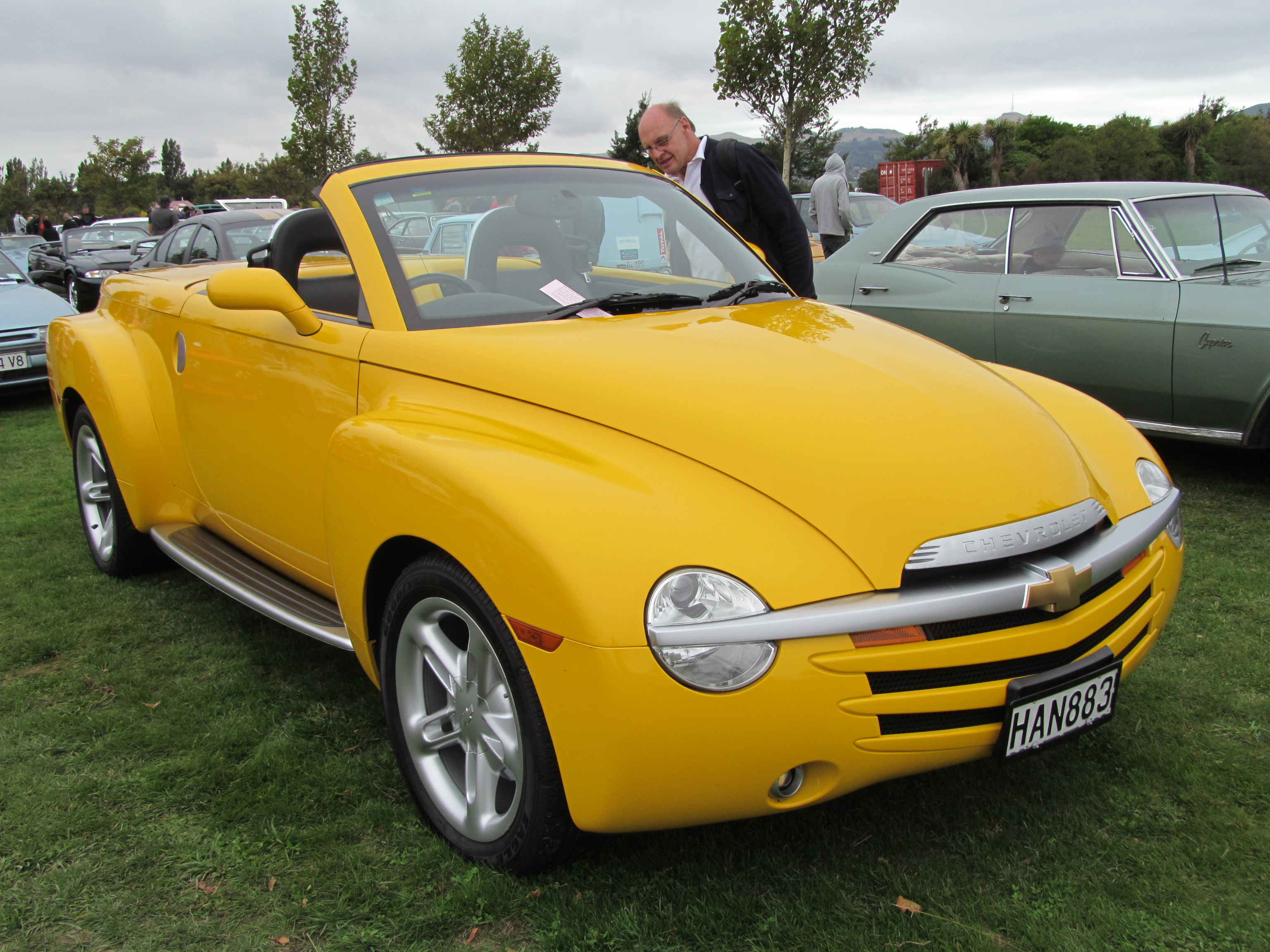 A long time favourite of mine, purely because of its outlandish style.